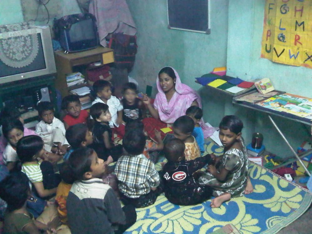 Pre-school. From the GiveWell visit to NGO Pratham in Mumbai, India. August-November 2010. More information.